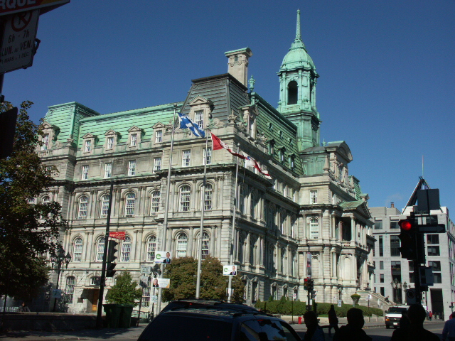 Montreal City Hall, Montreal